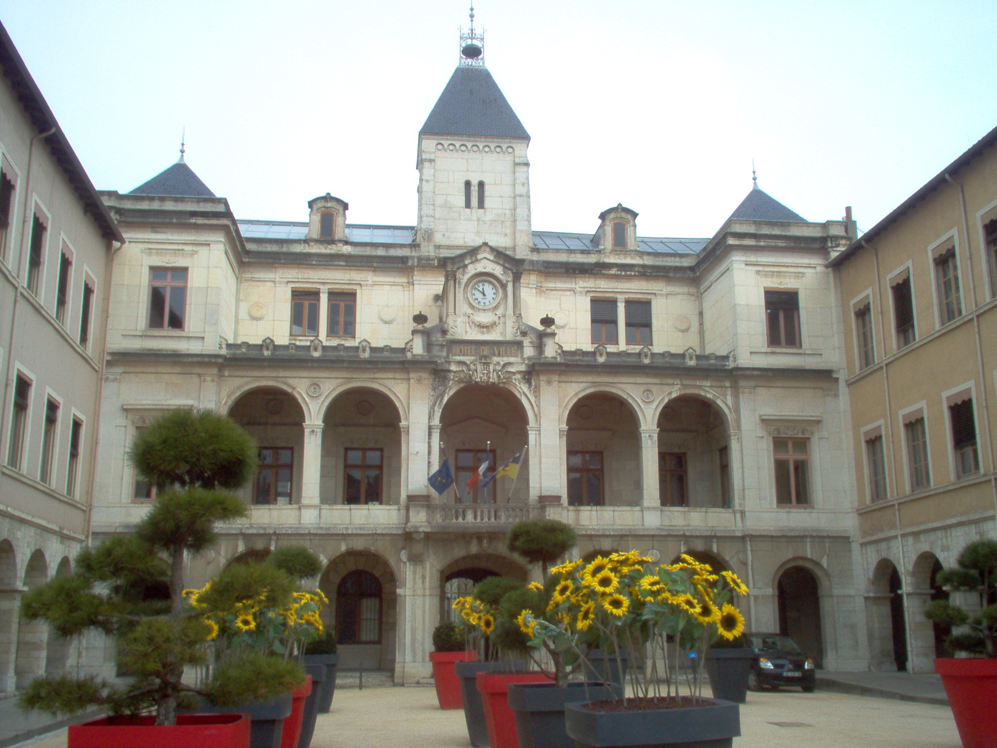 town hall of Vienne (Isère)